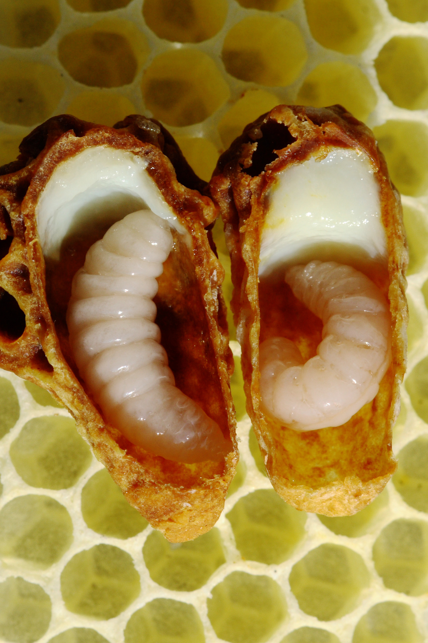 Two queen cells were opened to show older queen larvae of the Western honey bee. On top of the cells can be seen the royal jelly. The larvae are already more or less stretched. At the bottom, the cell is capped.